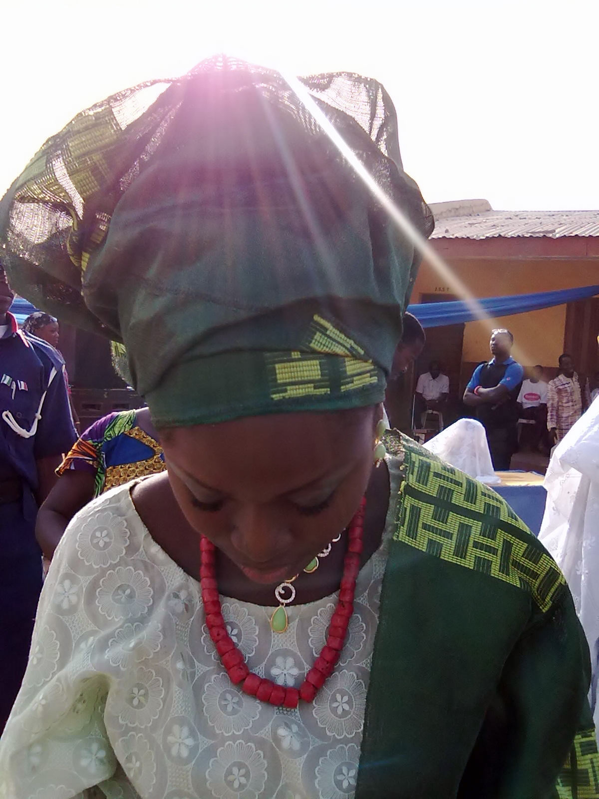 This is an image of Cultural Fashion or Adornment from Nigeria